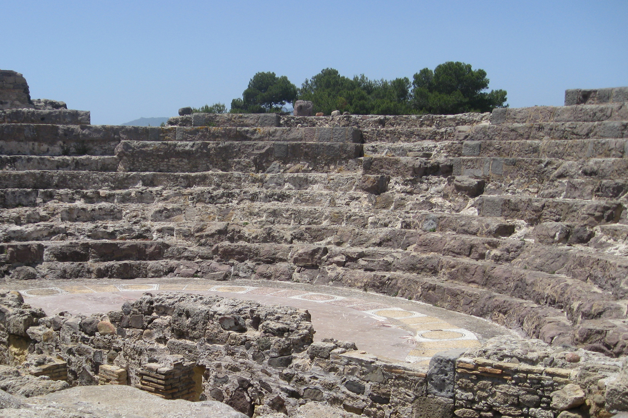 Theatre in the archeological site Nora, Sardinia, Italy